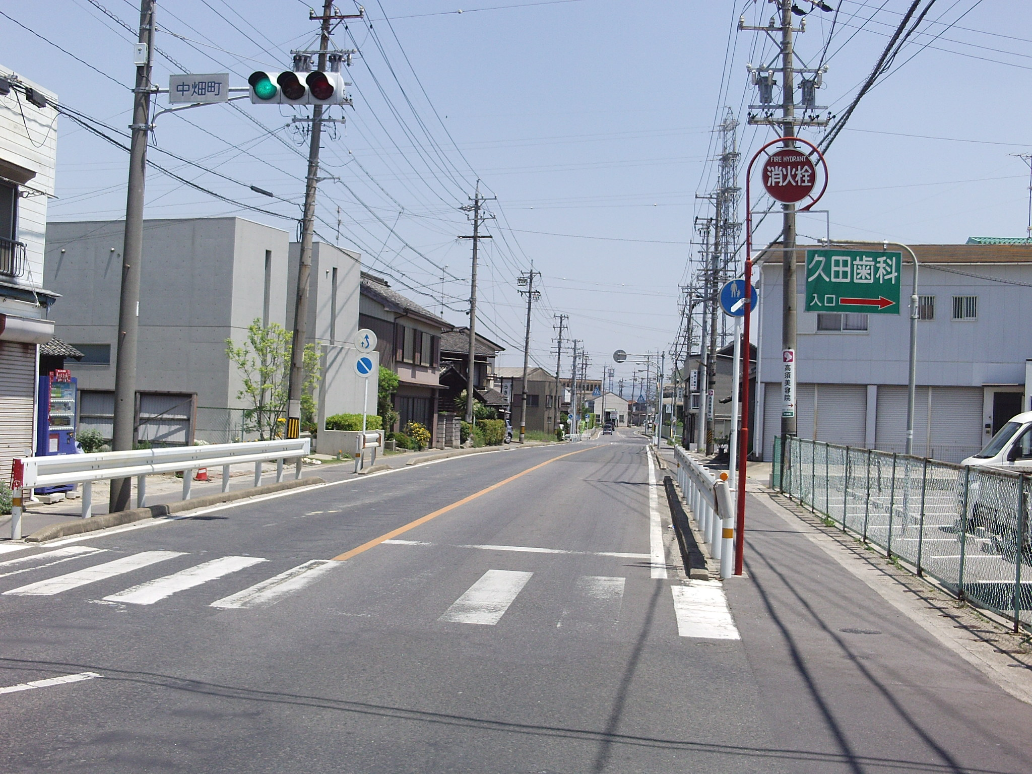 Aichi prefectural road No.311 in Nakabatacho, Nishio, Aichi.